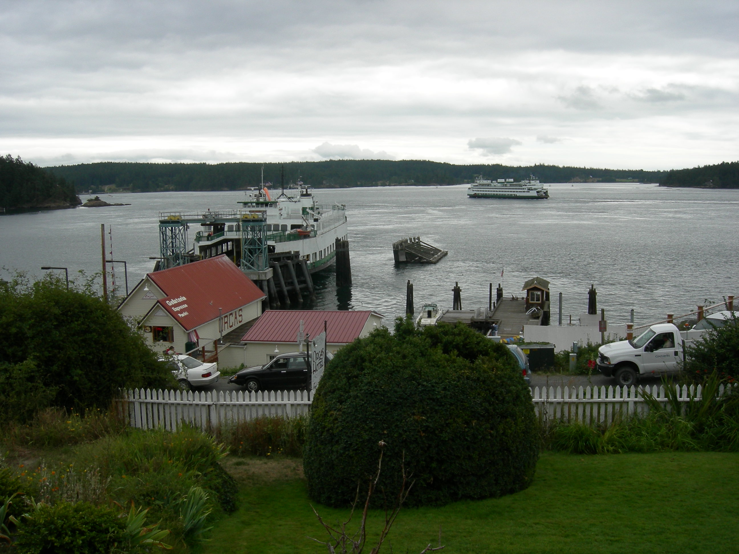 Ferry dock, Orcas Village, Orcas Island, Washington, with one ferry in dock and another at sea. Taken from the front porch of the Orcas Hotel.